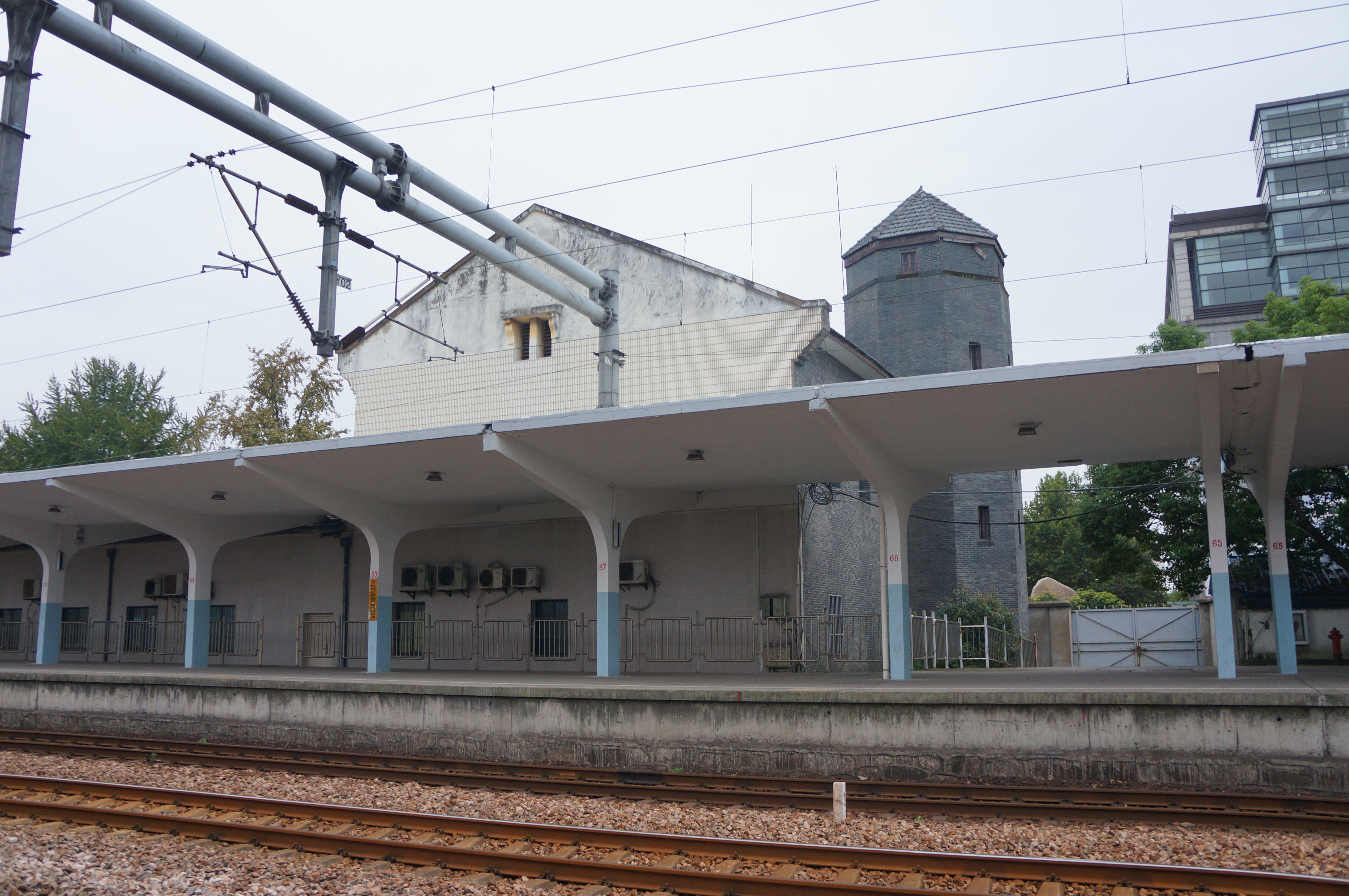 201610 Old Station building of Jiaxing Station